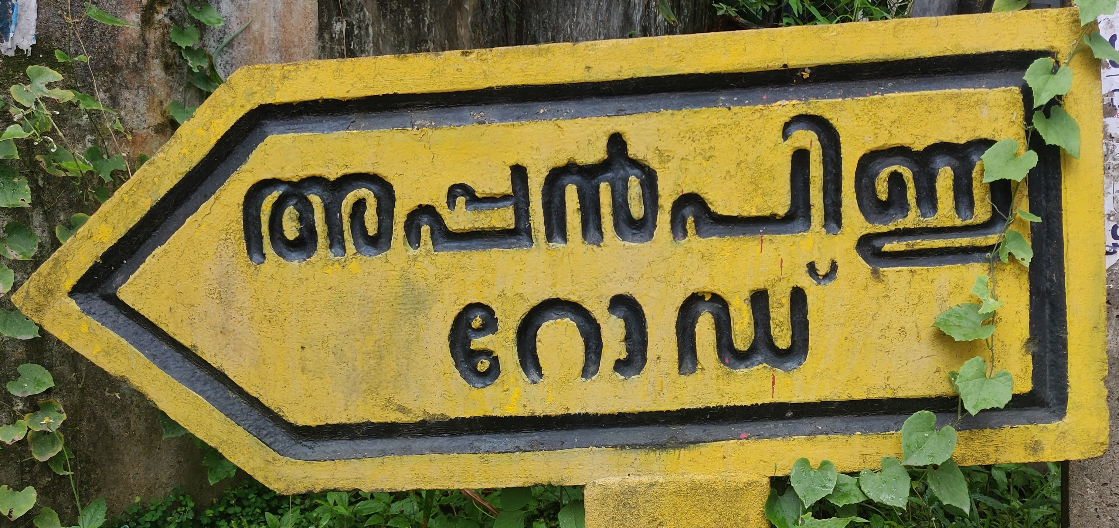 Malayalam board with old style Malayalam letter